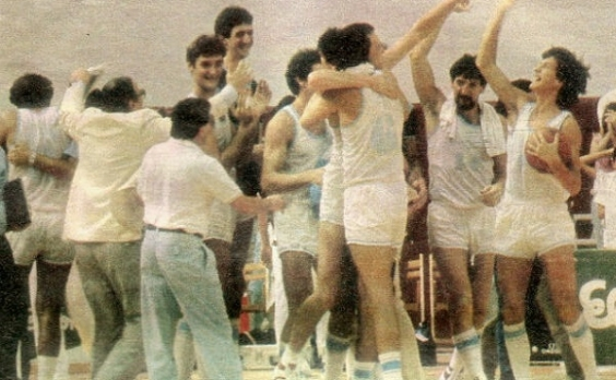 The Argentina national basketball team celebrating the victory over USA by 74-70. Some of the players are Hernán Montenegro and Marcelo Milanesio.